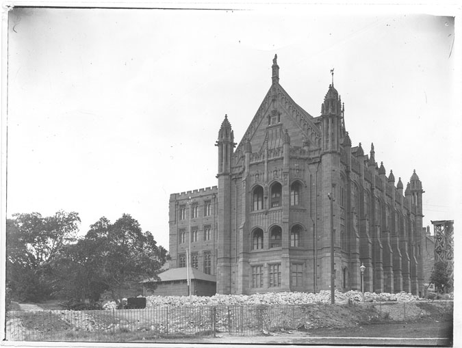 The Fisher Library of the University of Sydney as newly built in 1908 (now MacLaurin Hall)